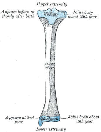 Plan of the development of the tibia by three centres.